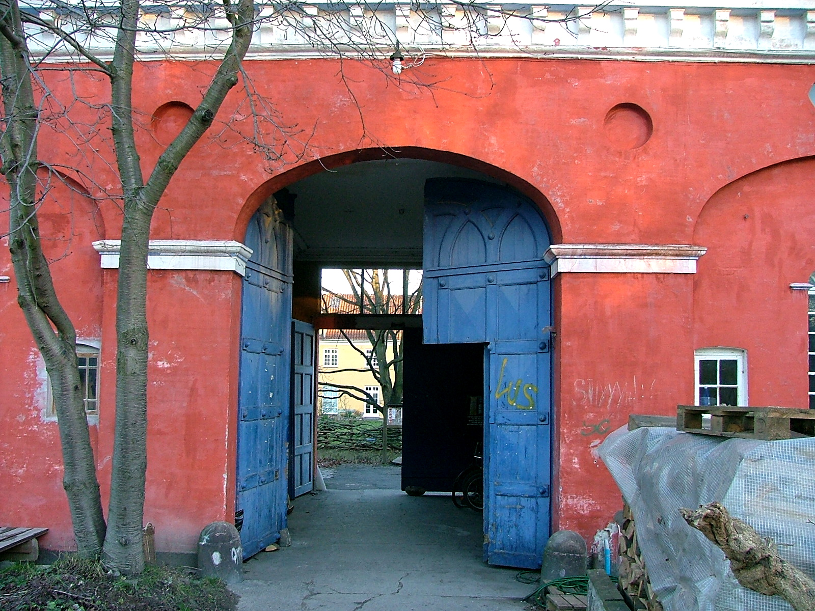 A gate im Freetown Christiania in Copenhagen, Denmark